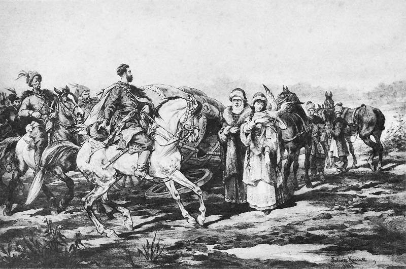 "Adventure on the road to Łubnie"). Helena and the princess meeting Skrzetuski